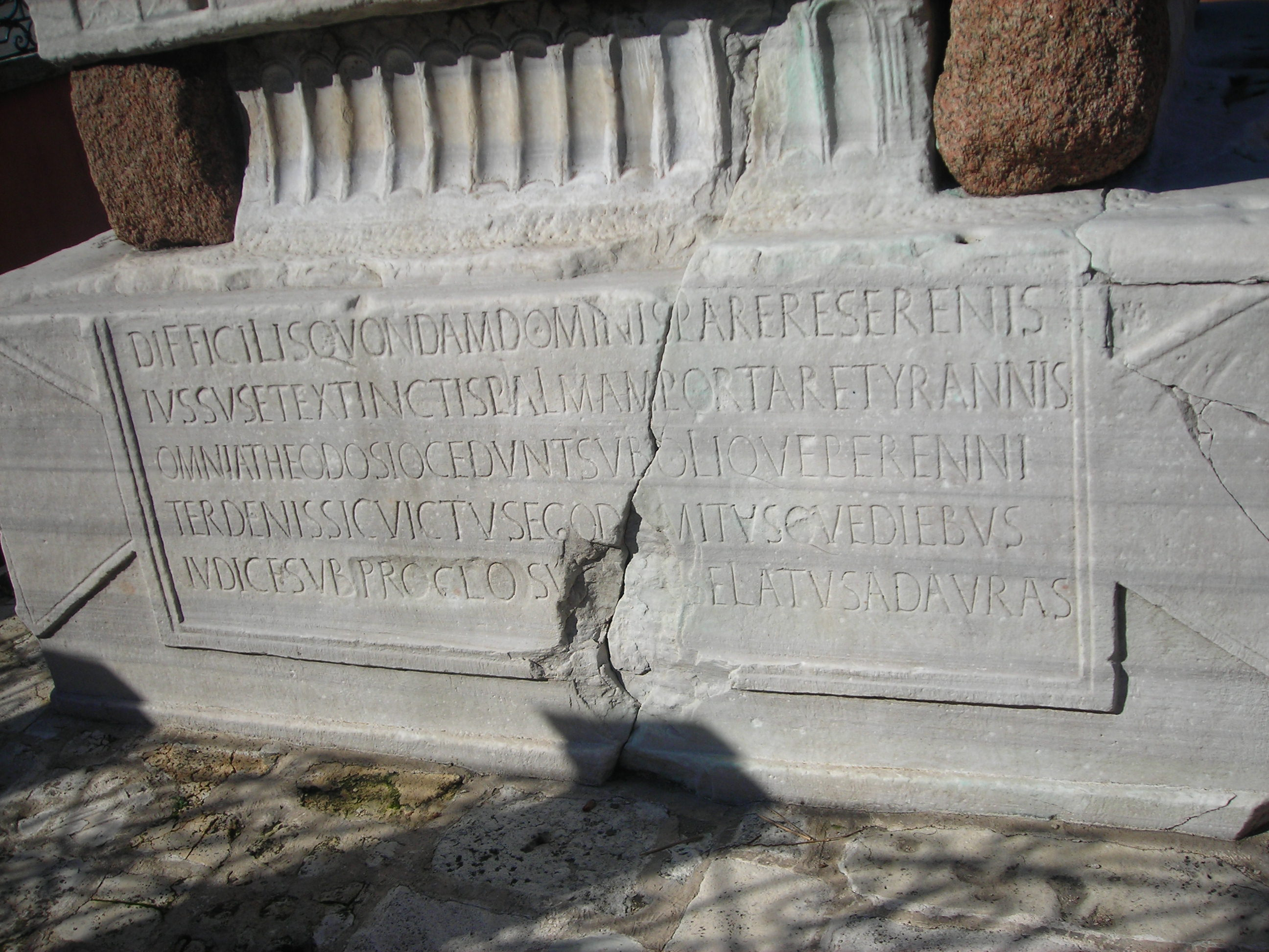 Latin inscription at the base of the obelisk of Theodosius, situated at the hippodrome in Istanbul, Turkey.